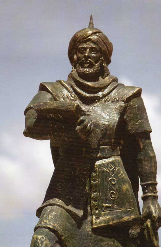 fondateur de la dynastie nord africaine arabe des fihrides